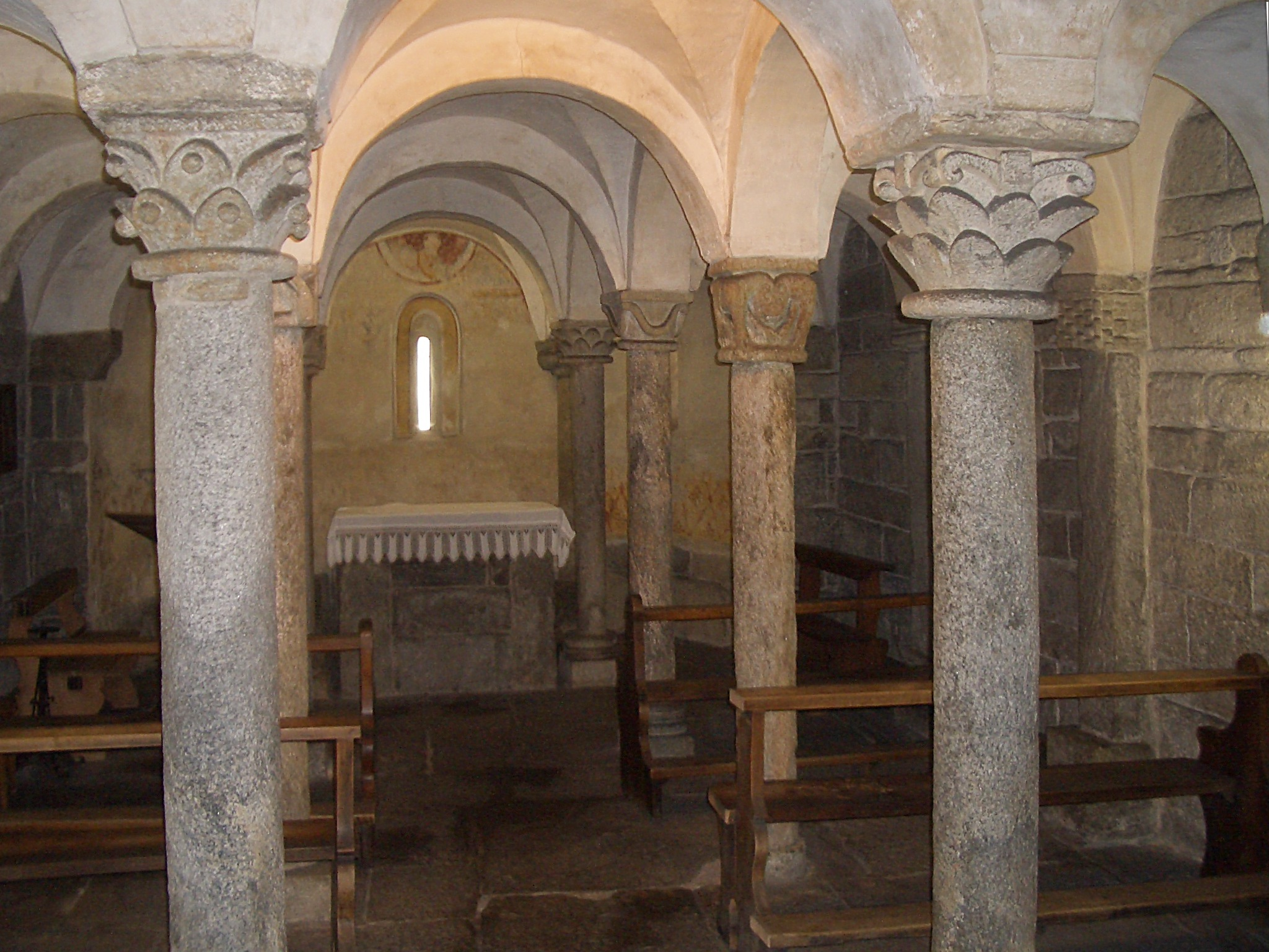 Giornico, St. Nicolao church, the crypt